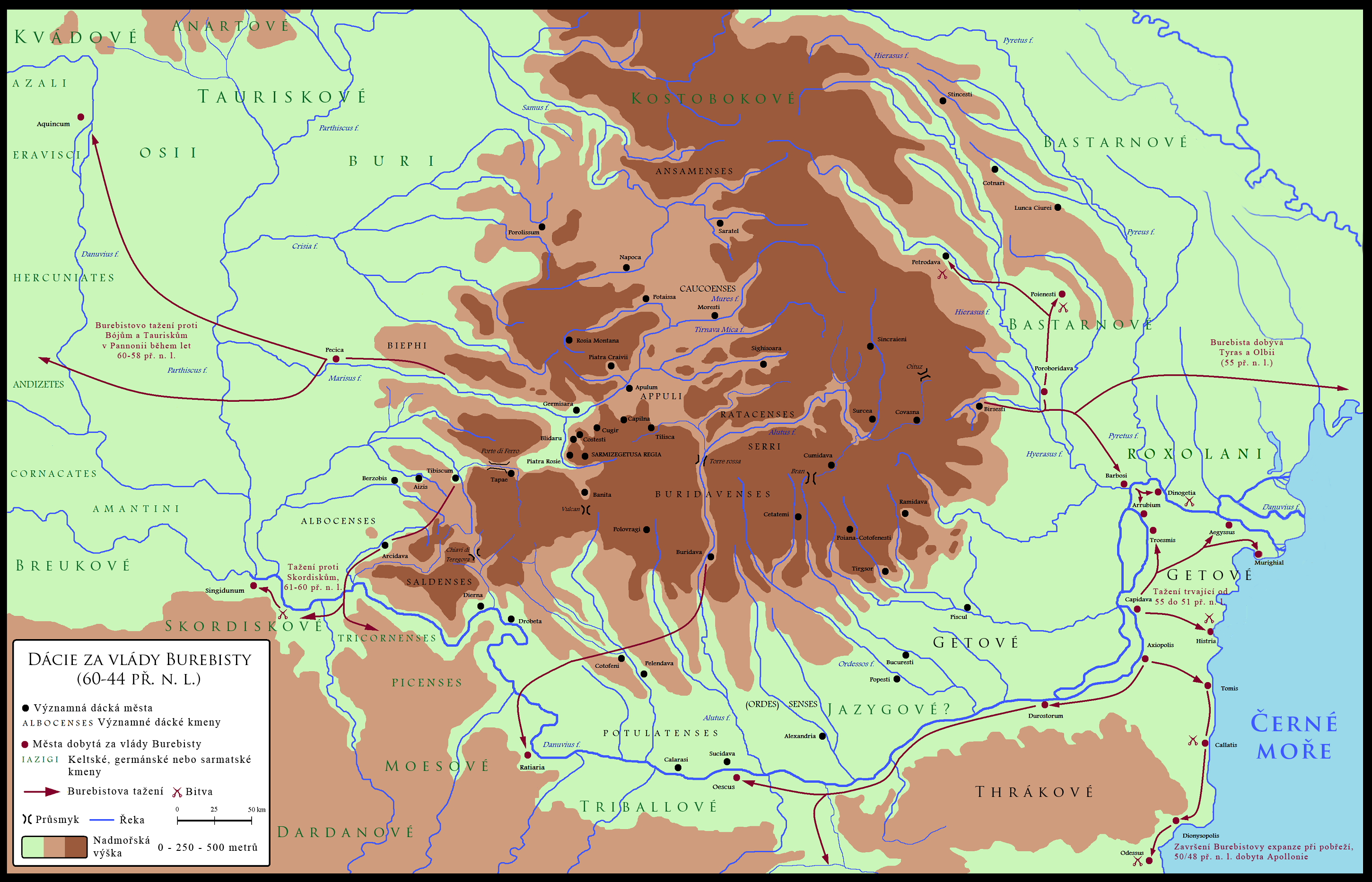 Dacian Kingdom around 60-44 BC during the time of Burebista (r. 82-44 BC), including the Dacian king's military campaigns